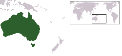 Map of Australia showing position in the world as an inset.